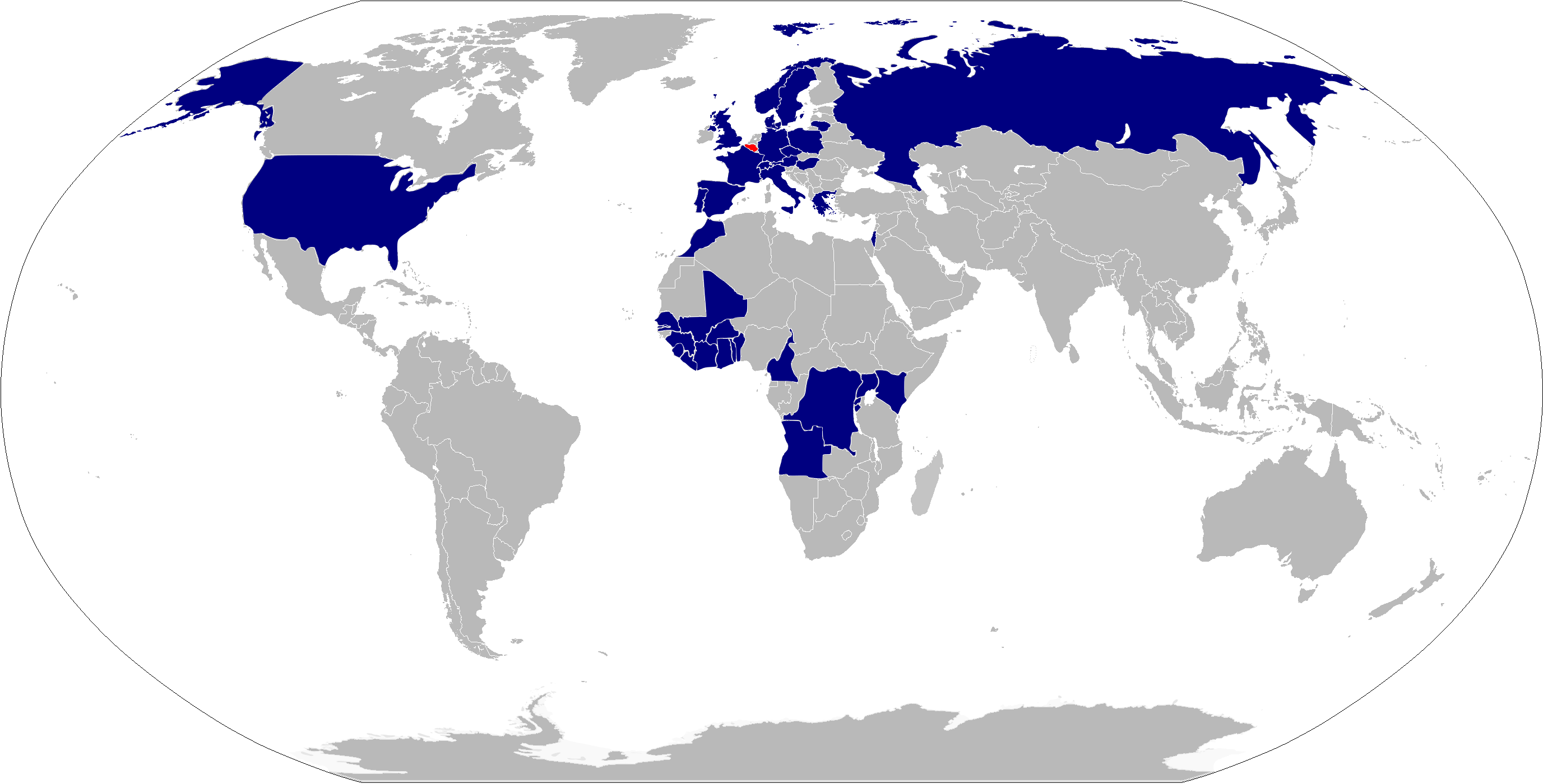 The destinations of Brussels Airlines